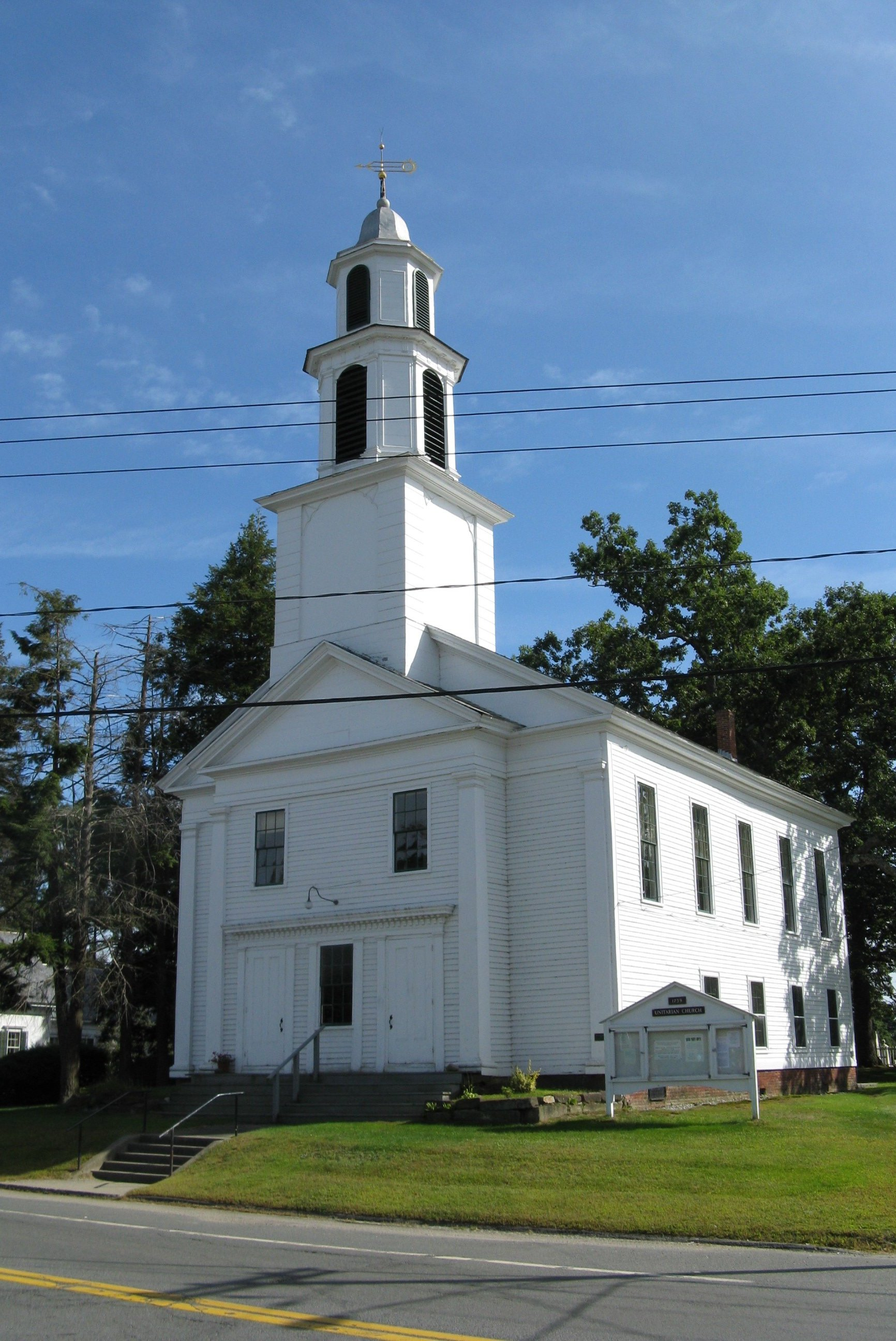 Bernardston Congregational Unitarian Church, Bernardston Massachusetts - 1739